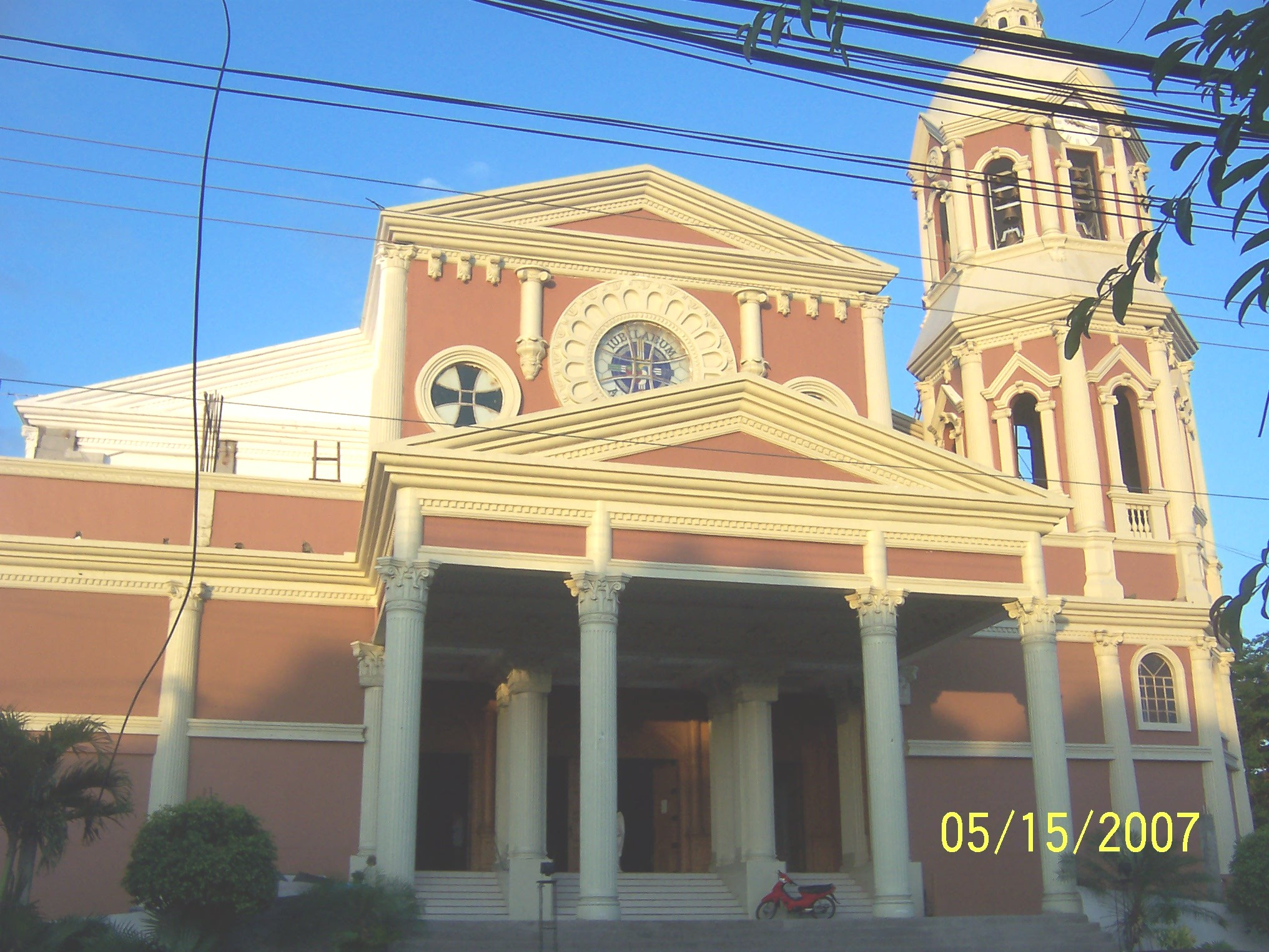 This picture was taken by Jayzl Villafania-Nebre (user name Nasugbu Batangas) on 15 May 2007.